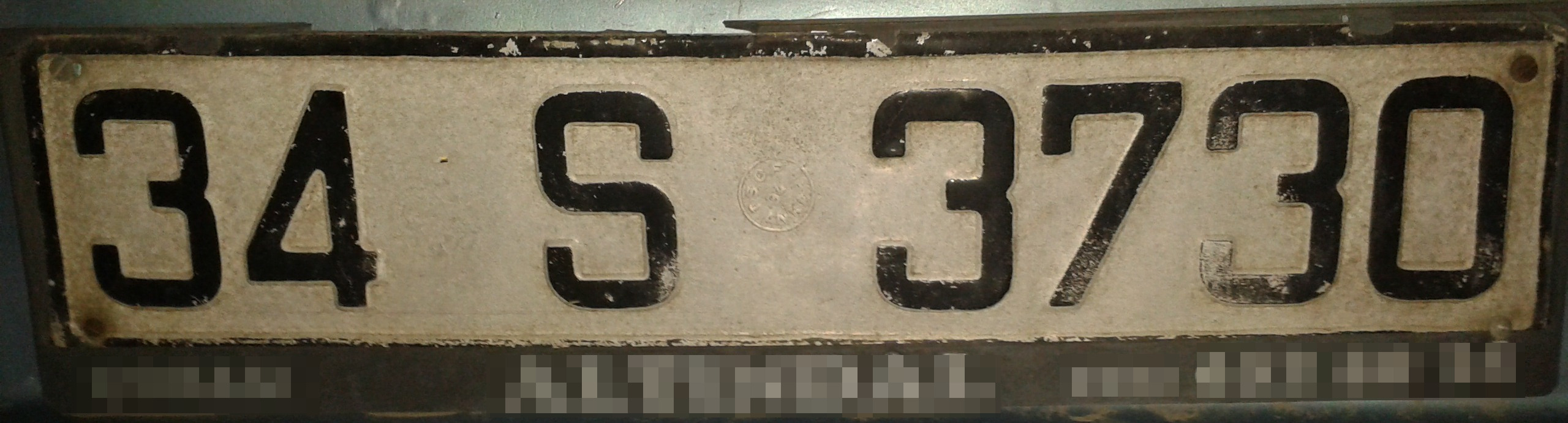 Old (pre-1995) Turkish license plate.